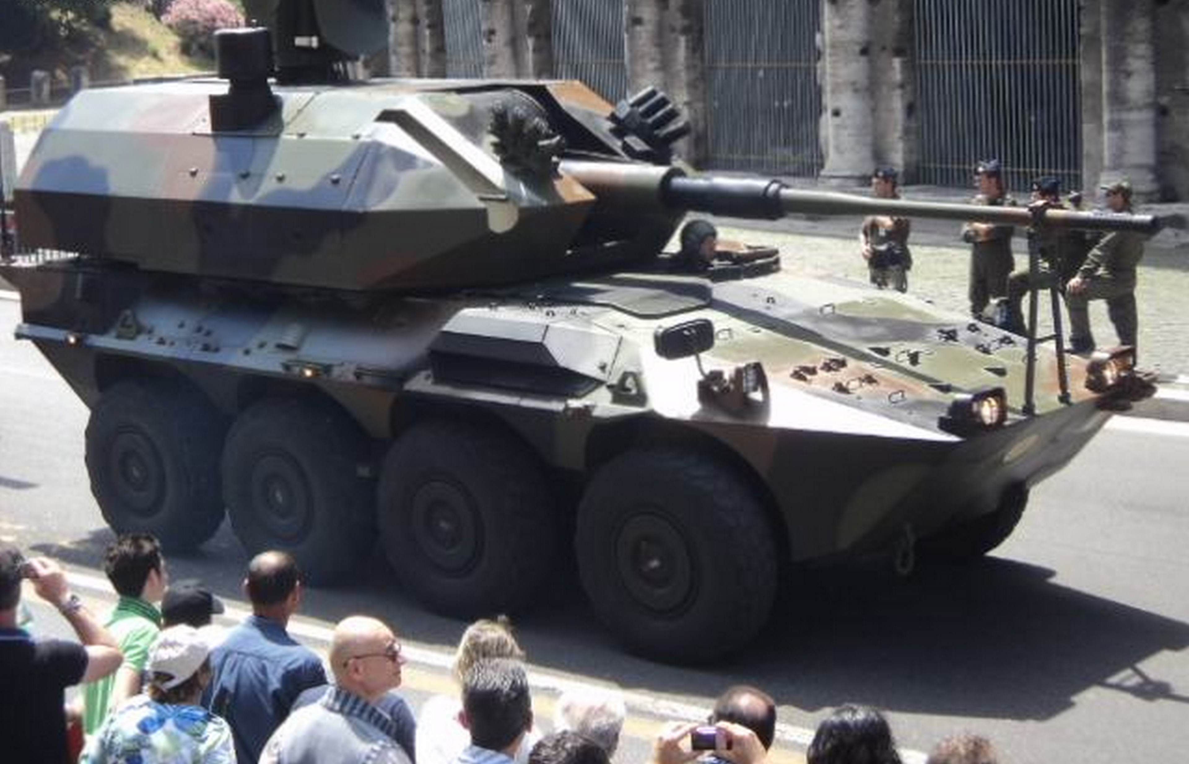 Army parade of Italy 2011